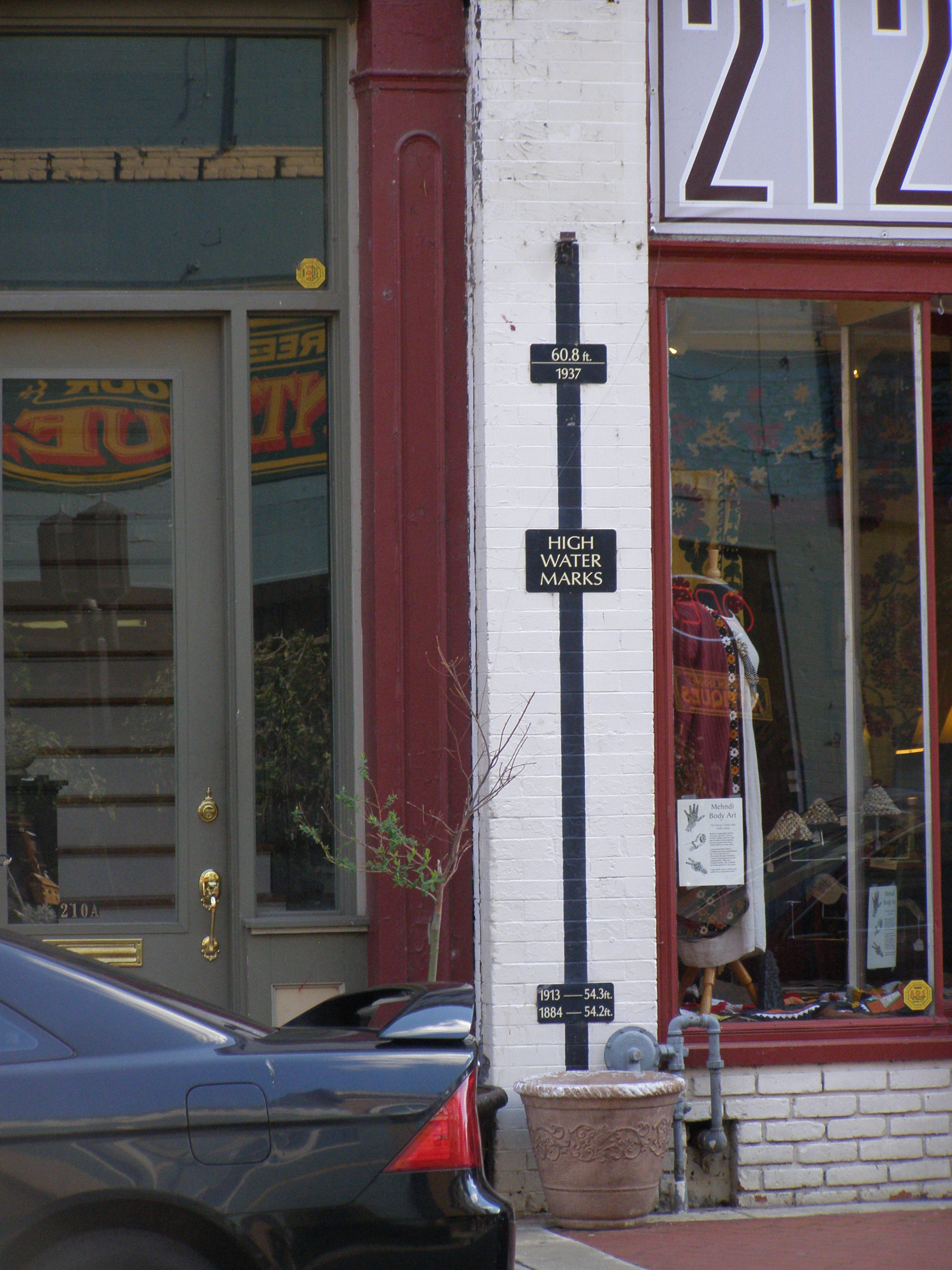 Flood level marker in Paducah, Kentucky